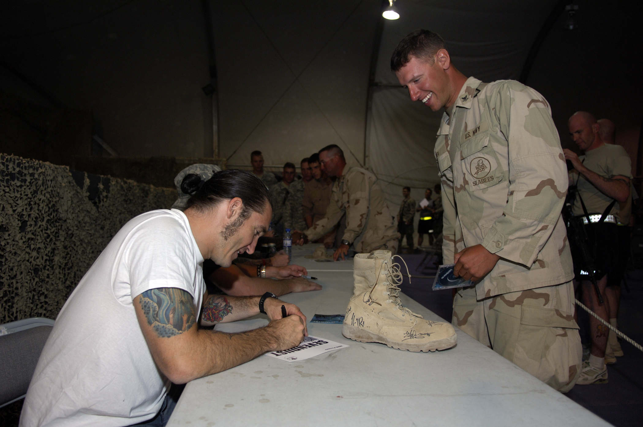 BAGRAM AIR FIELD, Afghanistan (July 12, 2008) Steel Worker 2nd Class Cody Bauer, assigned to Naval Mobile Construction Battalion (NMCB) 3 Det. 4, meets SEVENDUST, a recording artist from Atlanta, Ga., after a live performance for the troops At Bagram Air Field. The detachment of Seabees is here to build support facilities in support of International Security Assistance Force. (U.S. Navy photo by Mass Communication Specialist 2nd Class Eli J. Medellin/Released)